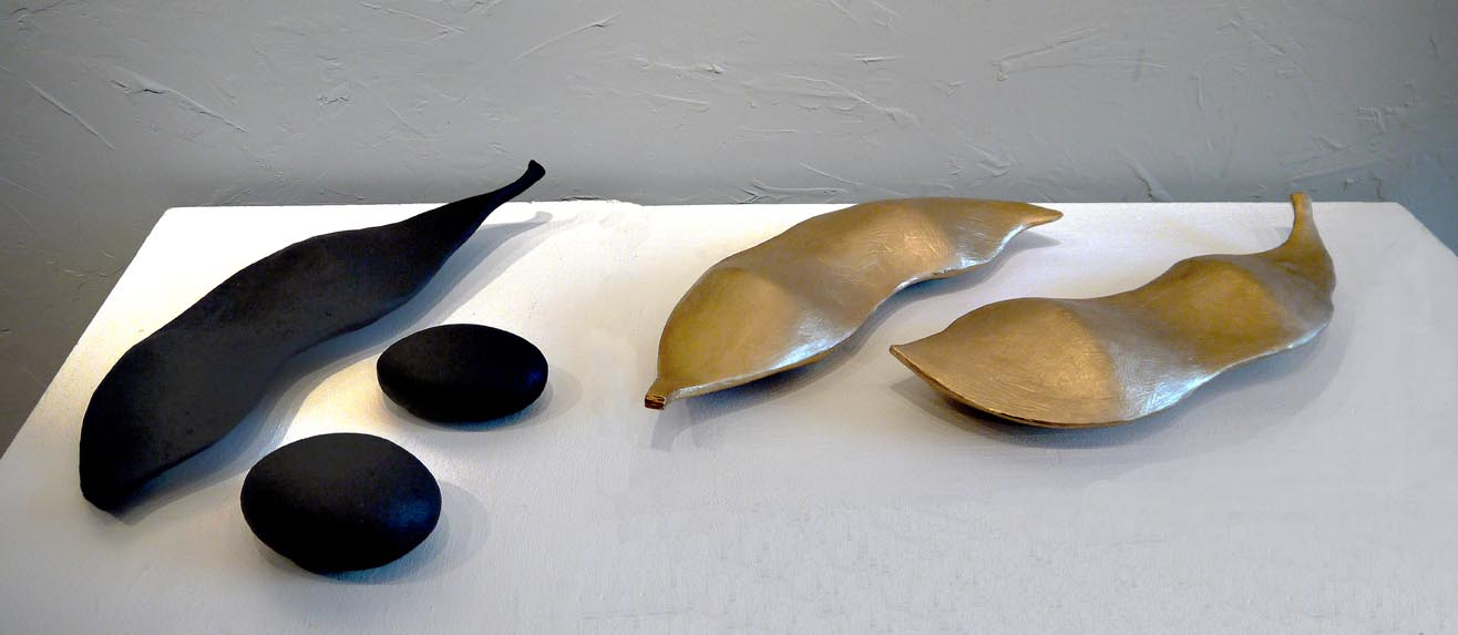 Ceramic art by Maria Carmen Riu De Martín